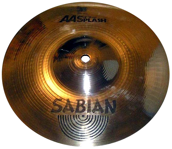 Sabian AA 10 inch Splash